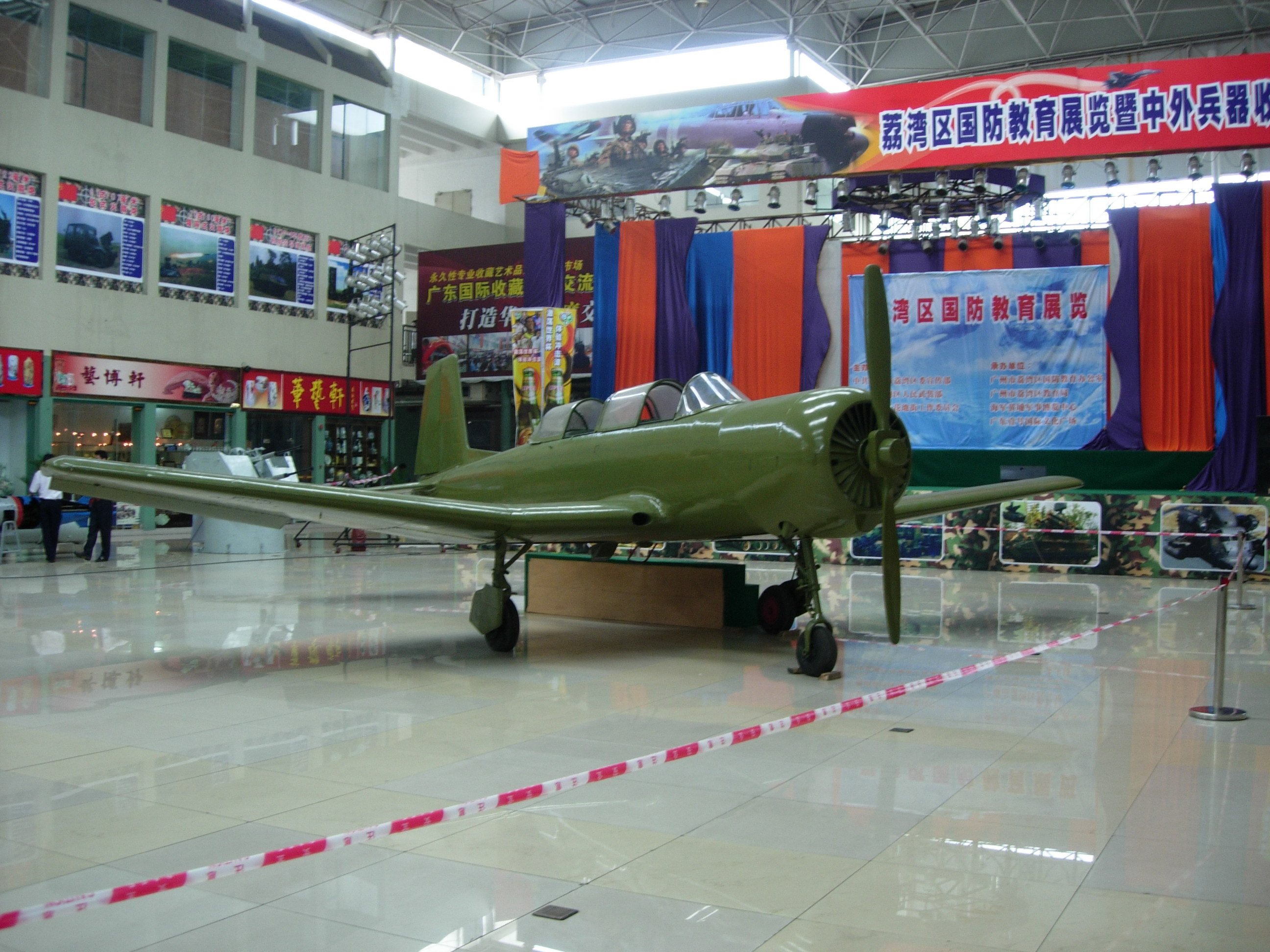 China training plane CJ-6